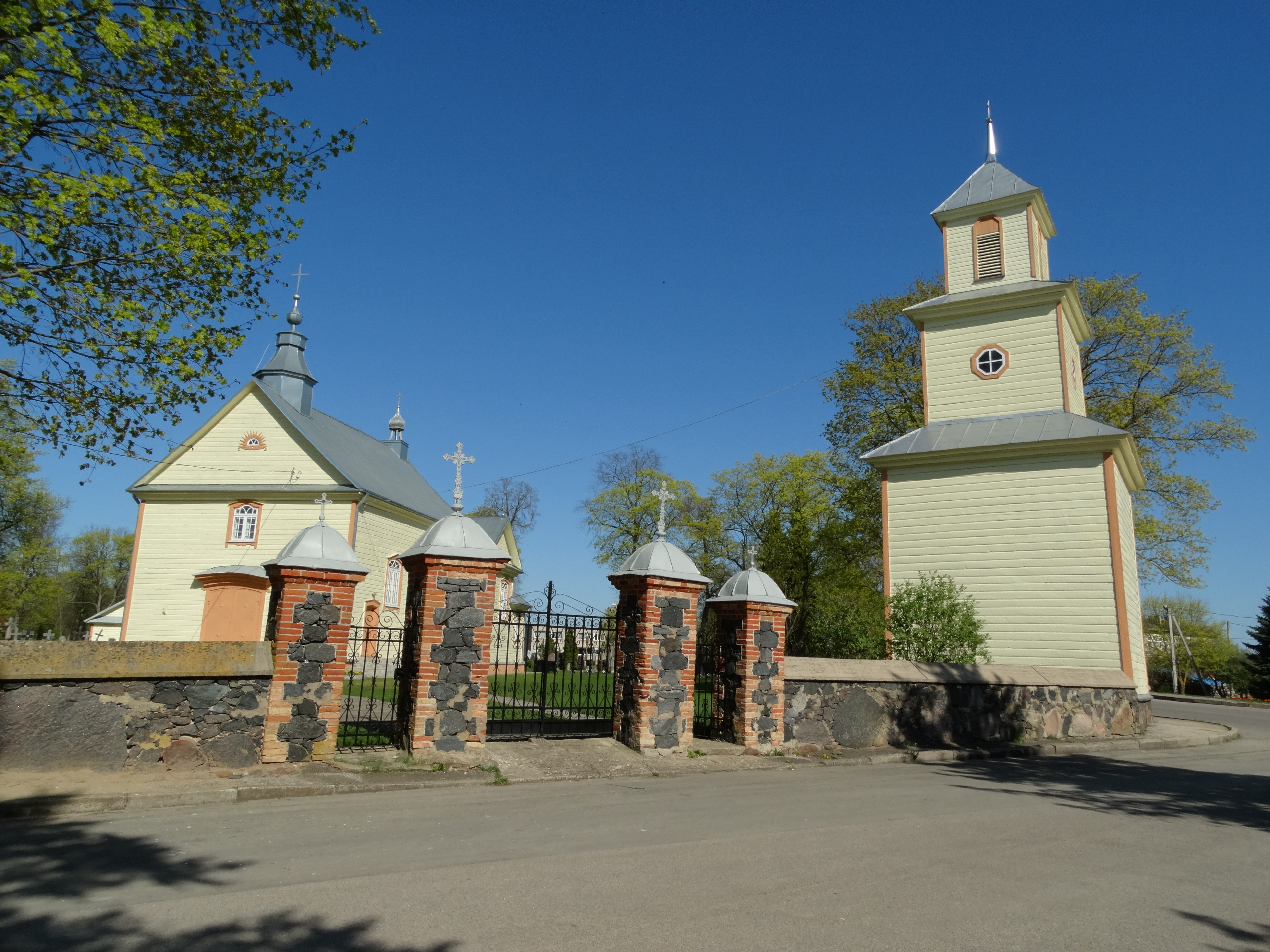 Upytė, Catholic Church, Panevėžys District, Lithuania